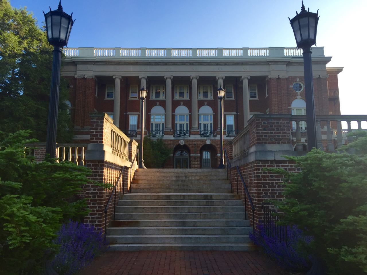 Benedict, an academic building on campus.